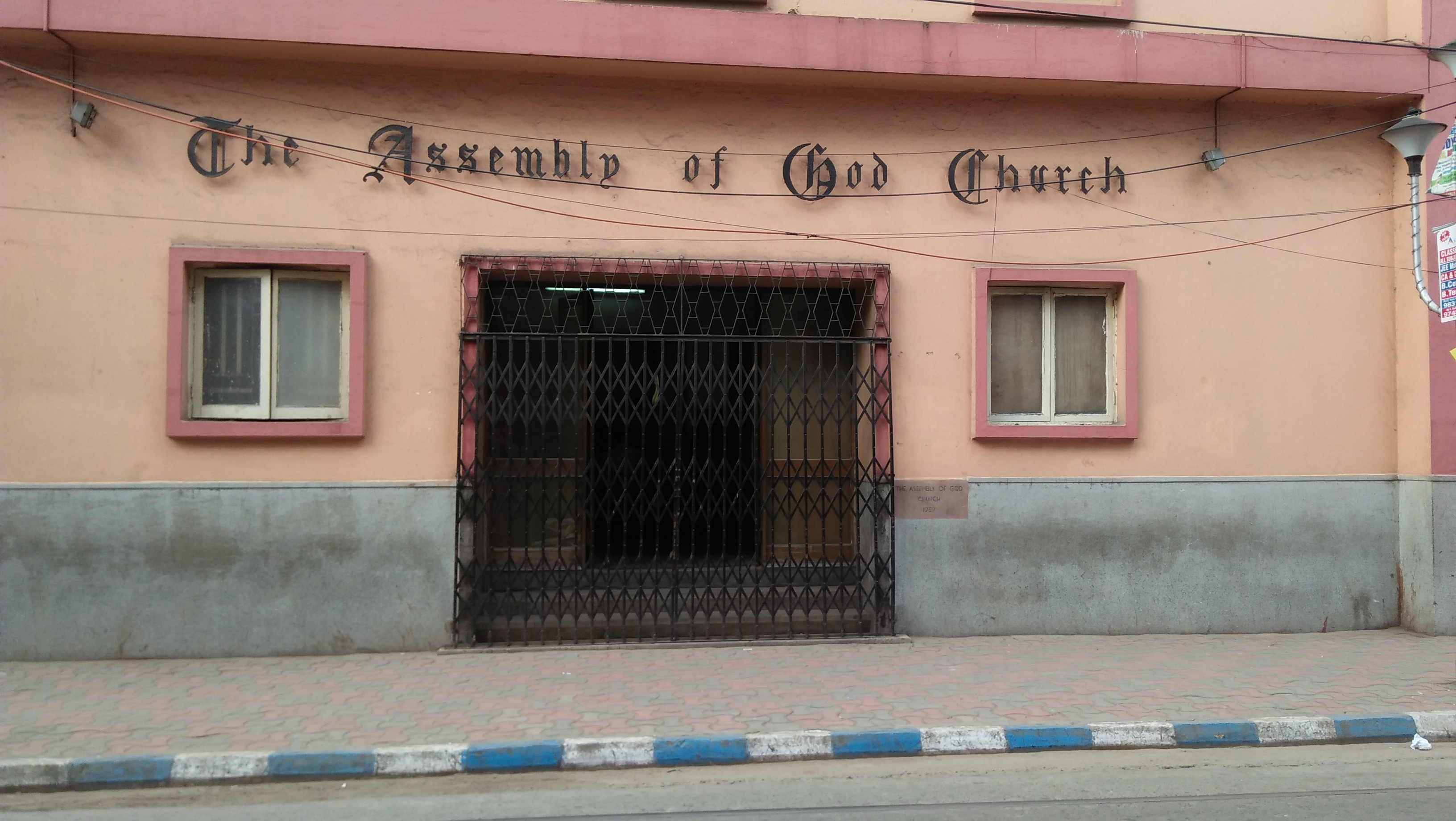 AGCS Junior section at Royd Street